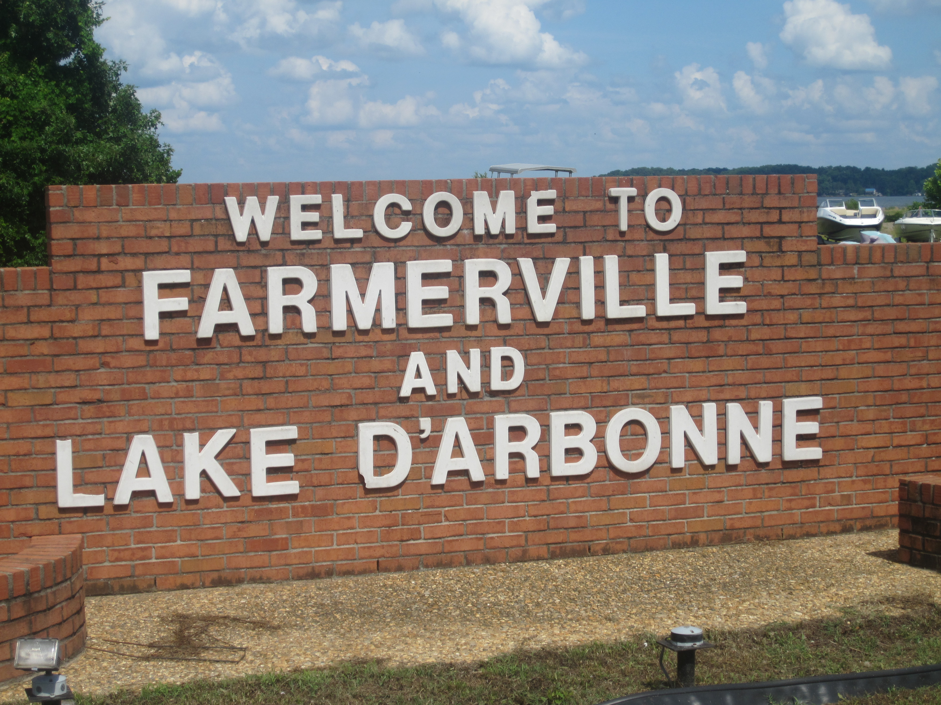 I took photo with Canon camera.